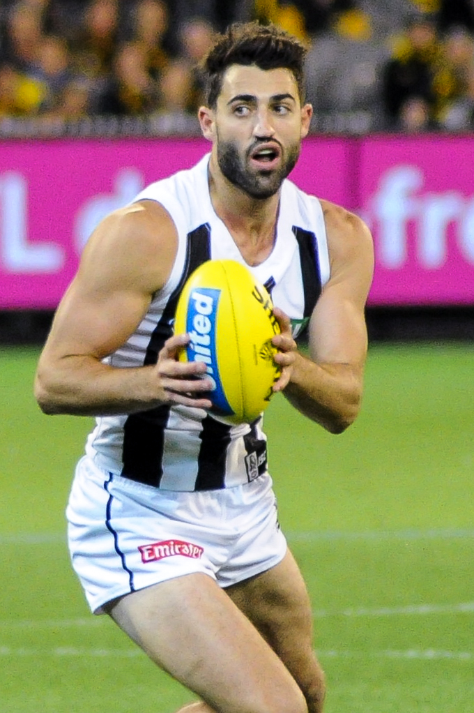 Alex Fasolo during the AFL round two match between Richmond and Collingwood on 30 March 2017 at the Melbourne Cricket Ground in Melbourne, Victoria.